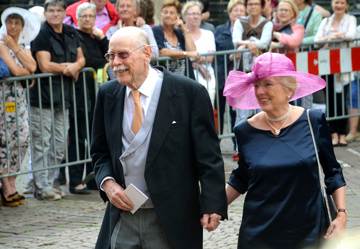 Many guests had been coming on July 8, 2017 into the Marktkirche, Hanover to the wedding of Ekaterina Malysheva and Ernst August Prinz von Hannover. Here we see Maximilian, Margrave of Baden and his wife Valerie, Margravine of Baden ...